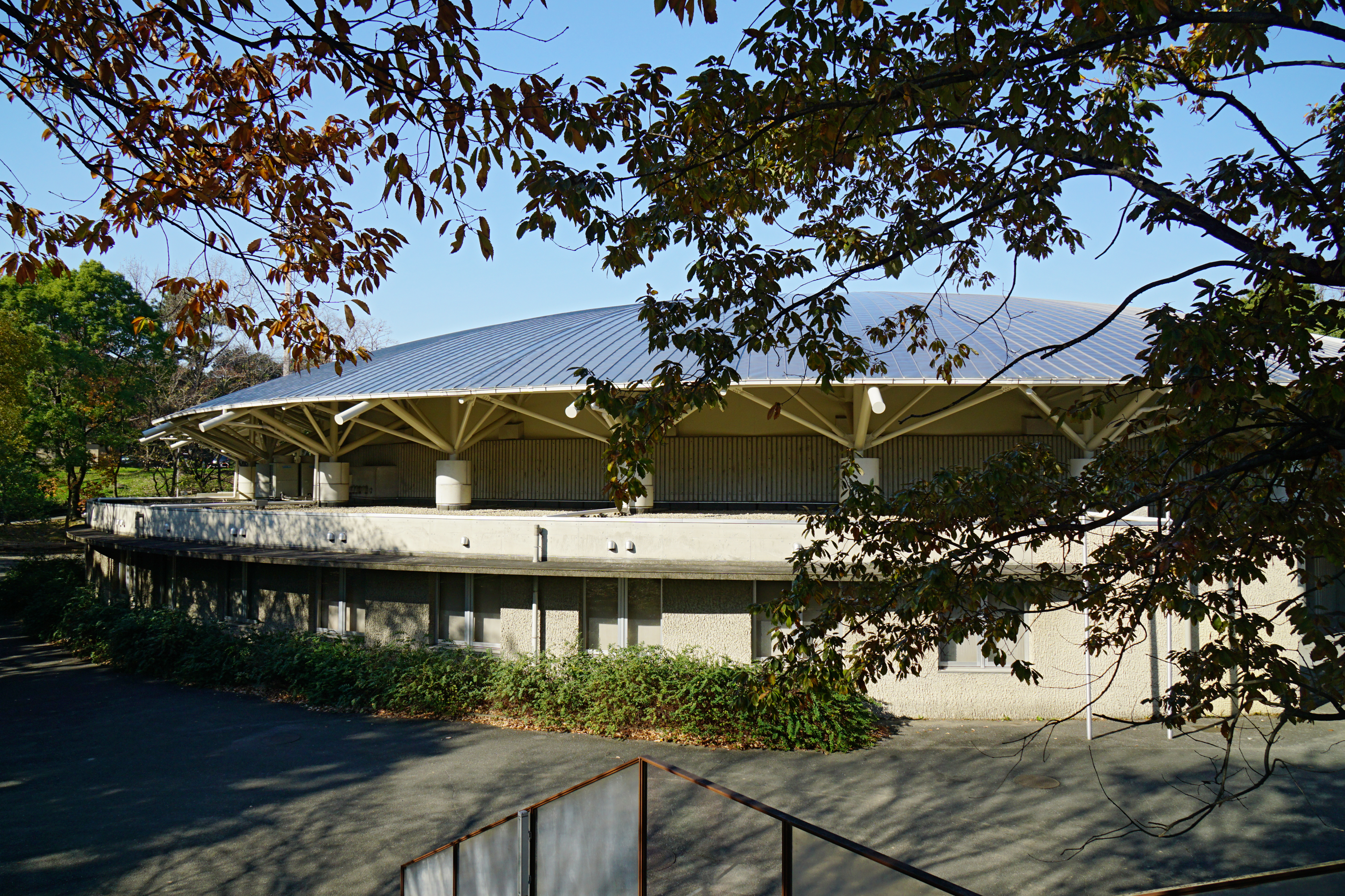 Hattori Ryokuchi open-air concert hall in Osaka prefecture, Japan